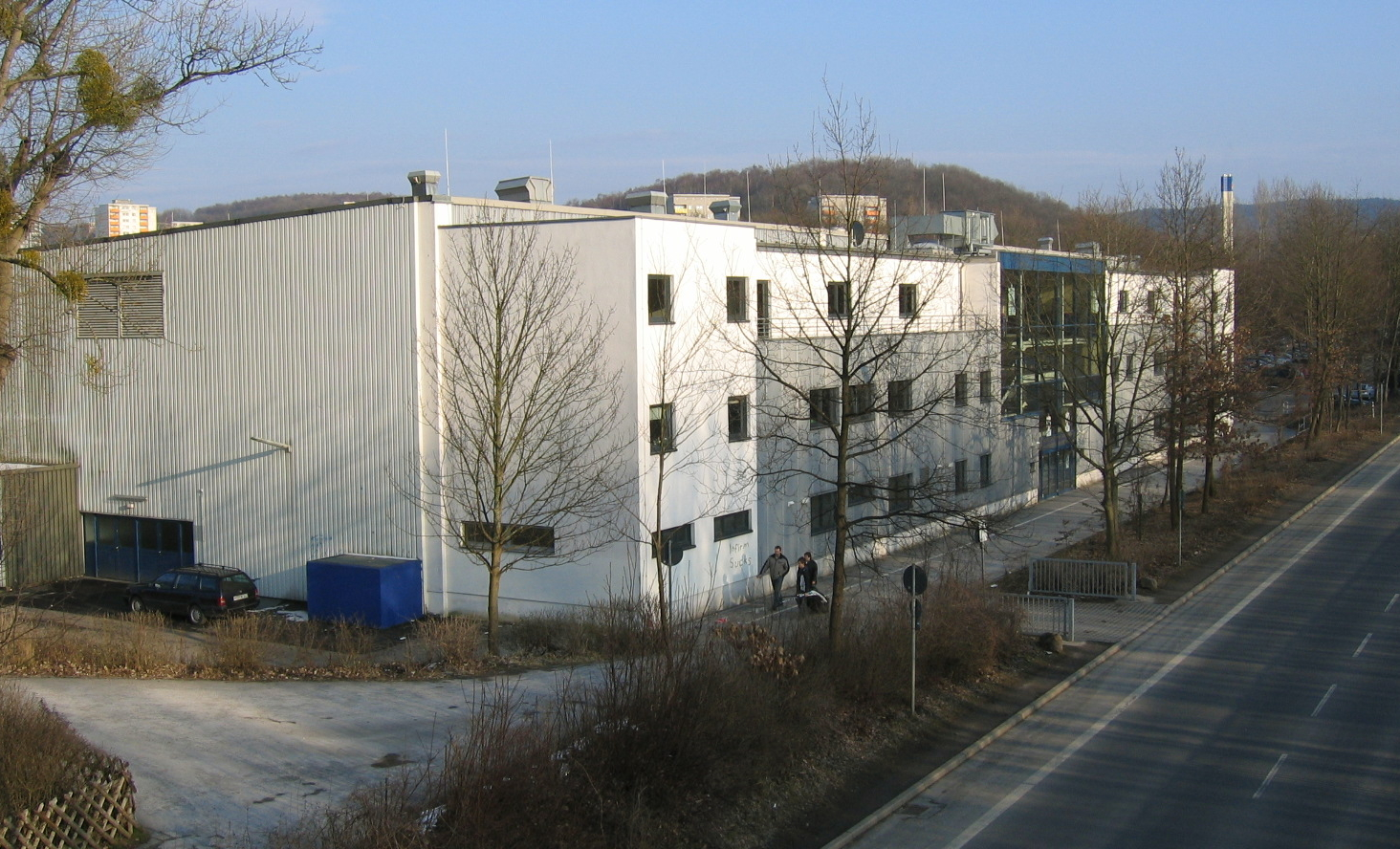 Description: Eissporthalle in Iserlohn Source: selbst fotografiert Date: 13. März 2006 Author: Asio otus